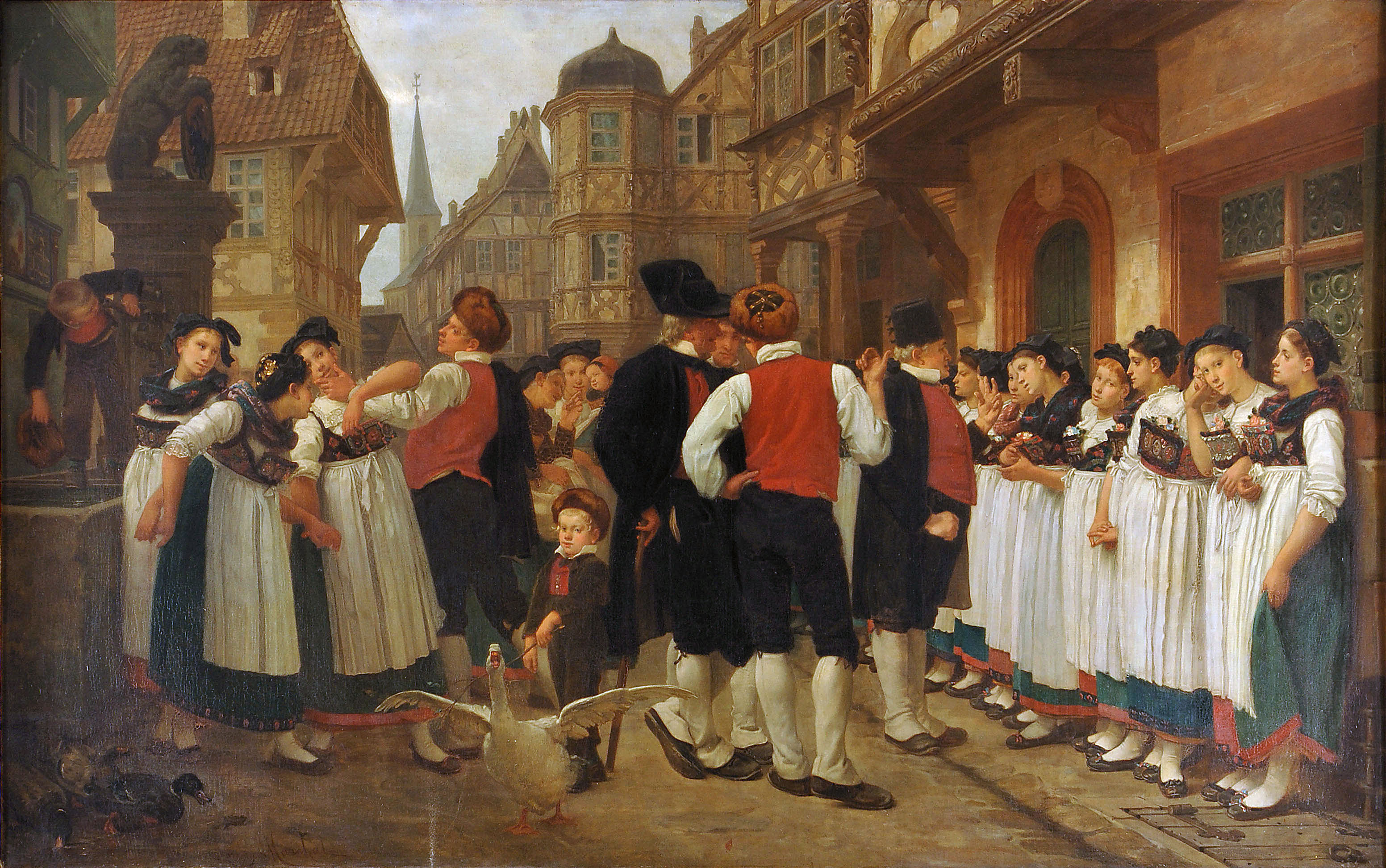 1864 painting by Charles-François Marchal "The Servants' Fair at Bouxwiller"